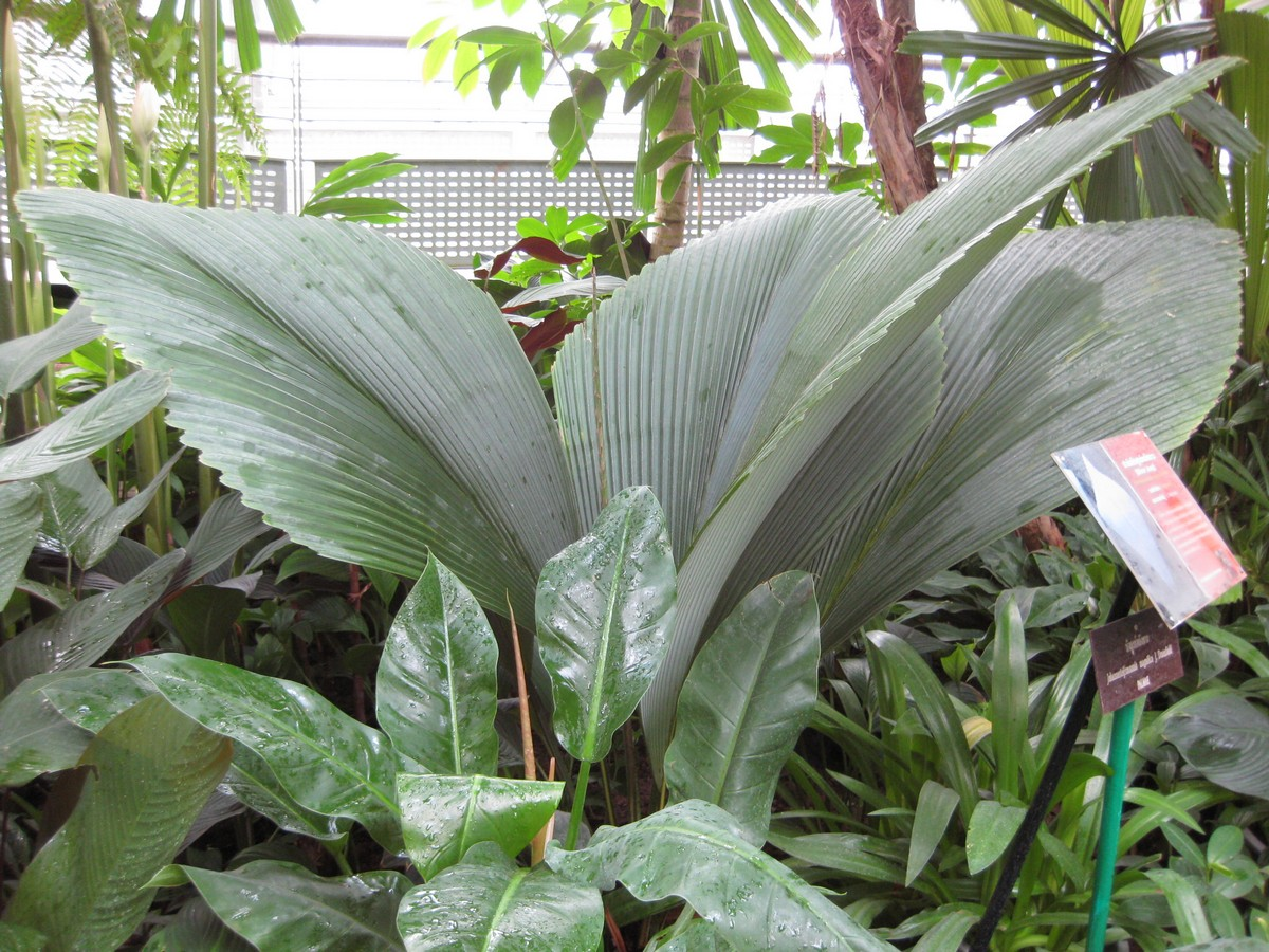 Photographed at the Queen Sirikit Botanic Garden (Chiang Mai Province, Thailand) in March